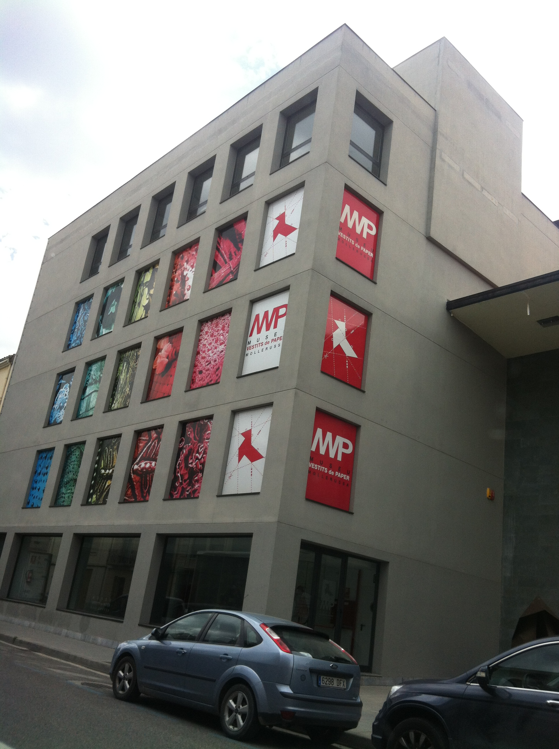 Museu dels vestits de Mollerussa